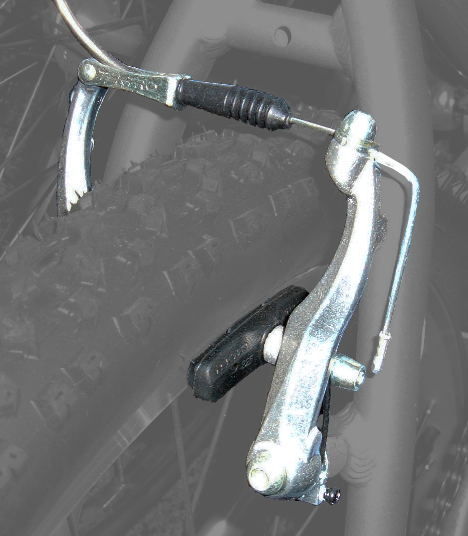 A picture of linear pull brakes (or V-brakes) on a mountain bicycle. The non-brake parts of the bike and the background are greyed out to make the brake more clear. Blue reflection from the frame paint is visible on the un-greyed parts of the image, somewhat unfortunately.